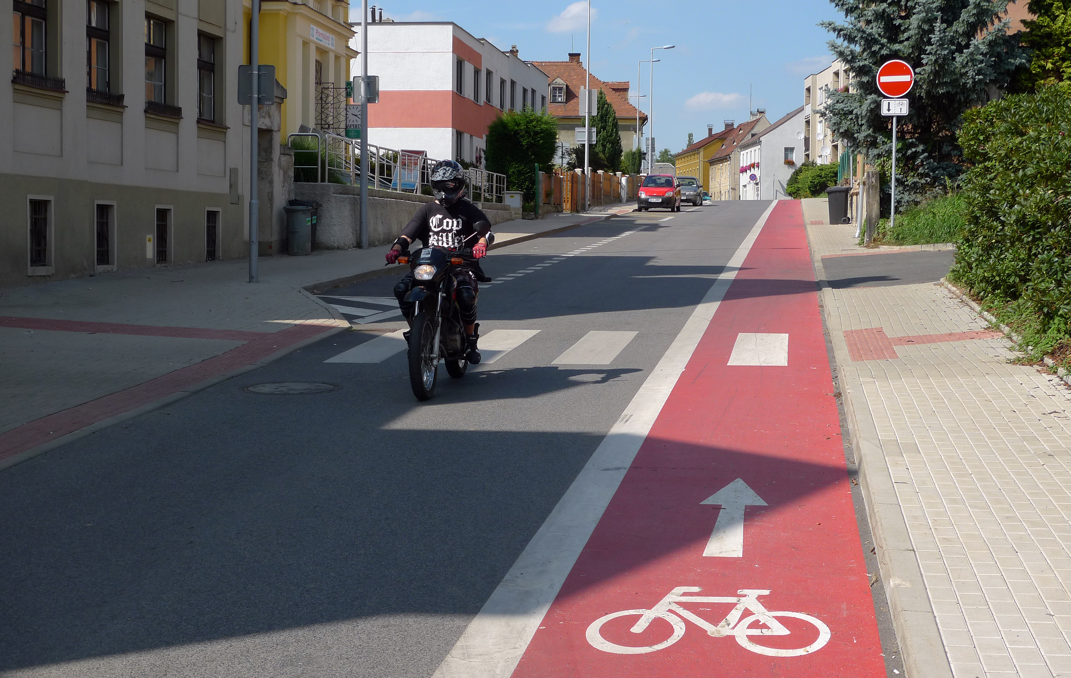 Cycle lane in Hrádek nad Nisou, Czech Republic